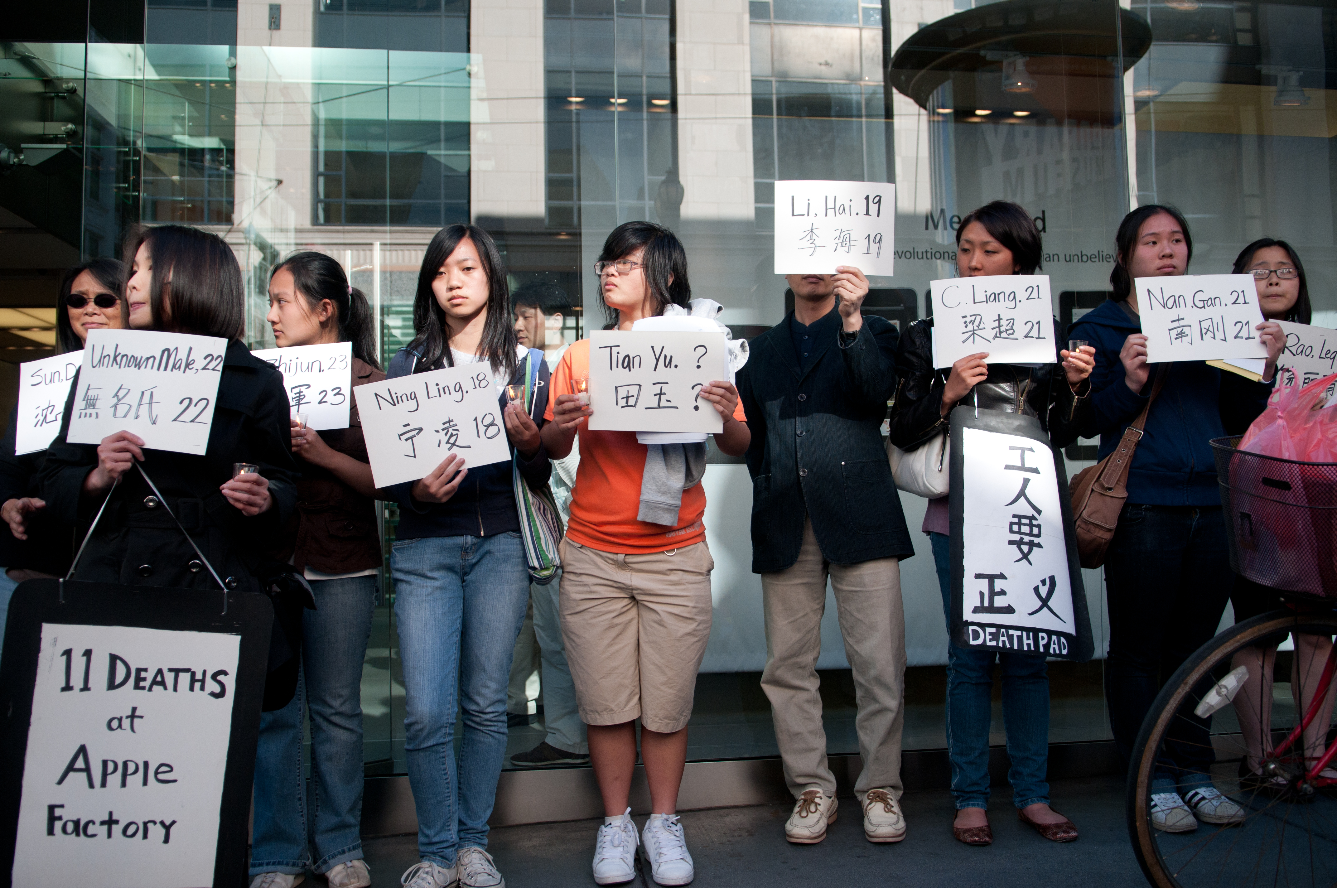 Deathpad protest